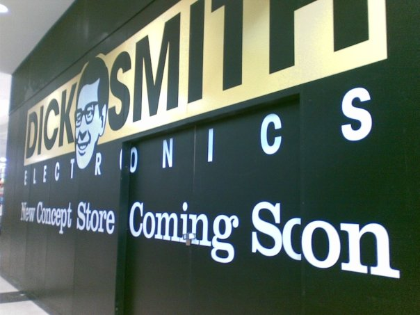 Dick Smith Electronics Site 40; Hornsby DSE being rebranded as "Dick Smith Technology" behind closed doors.